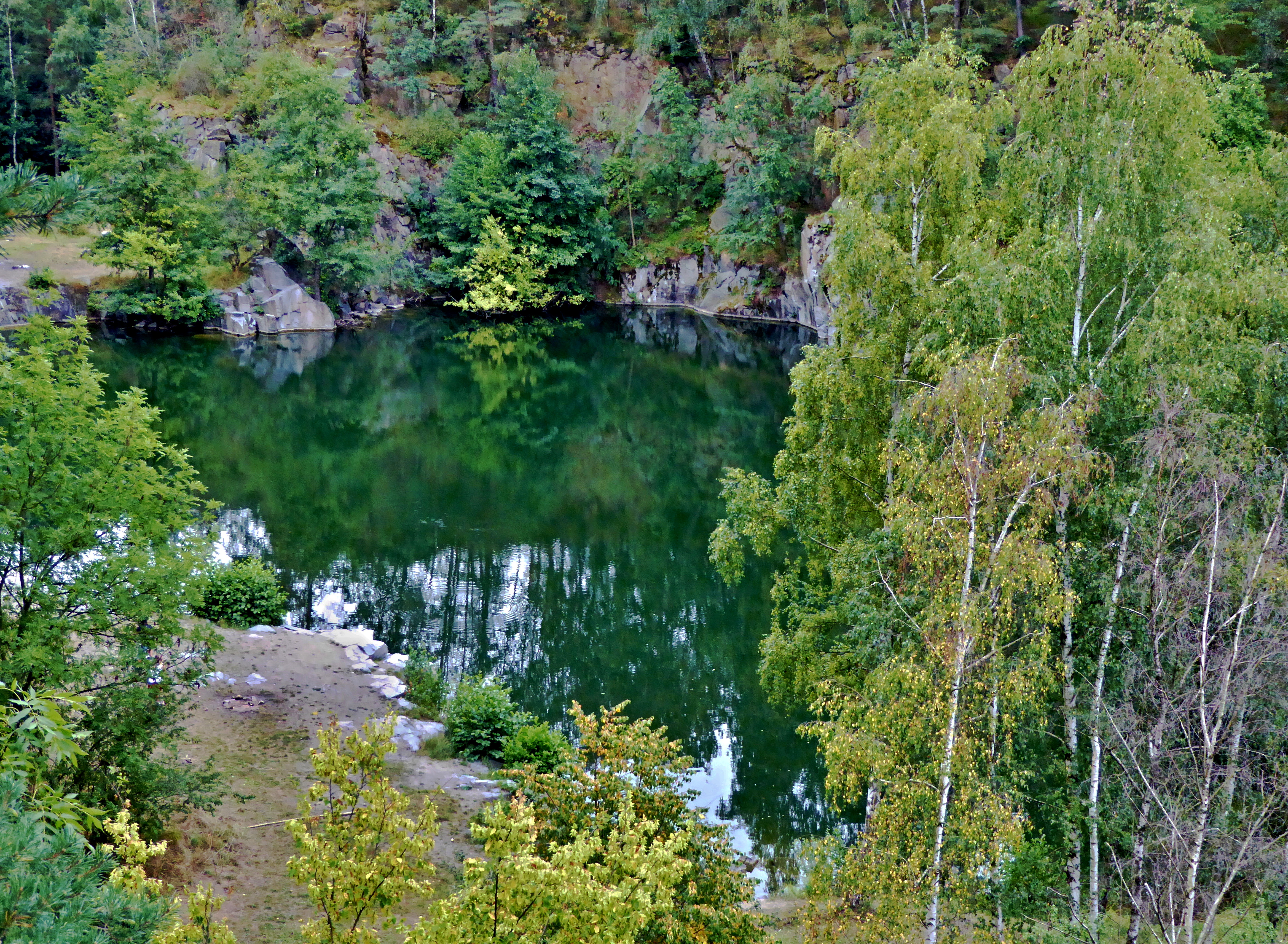 Granite nature trail - flooded quarry, hillock "Horka" (town Skuteč). Photo location: Czechia, Pardubice Region, Skuteč town.